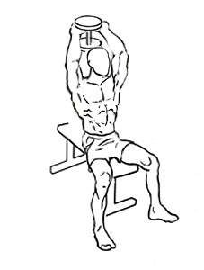 an exercise of triceps